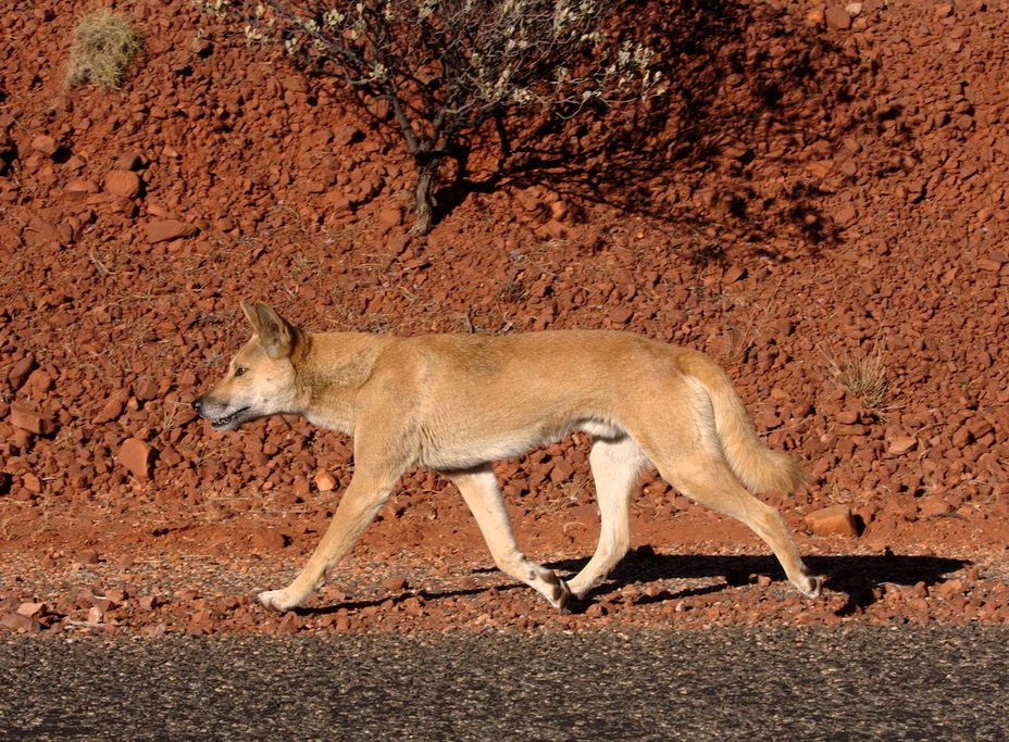 on the road